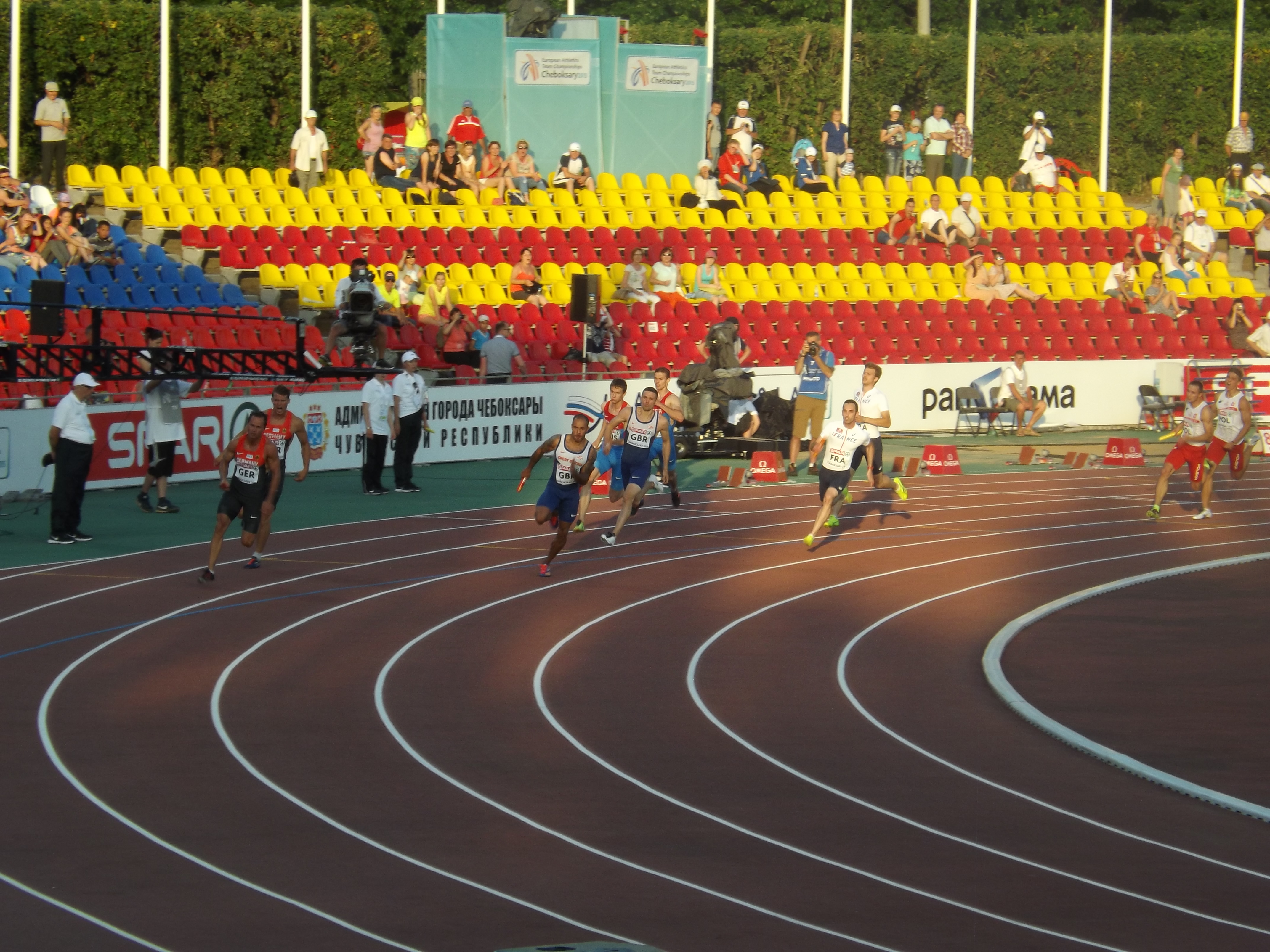 Heat 2 in men 4x100 metres relay during 2015 European Team Champioships